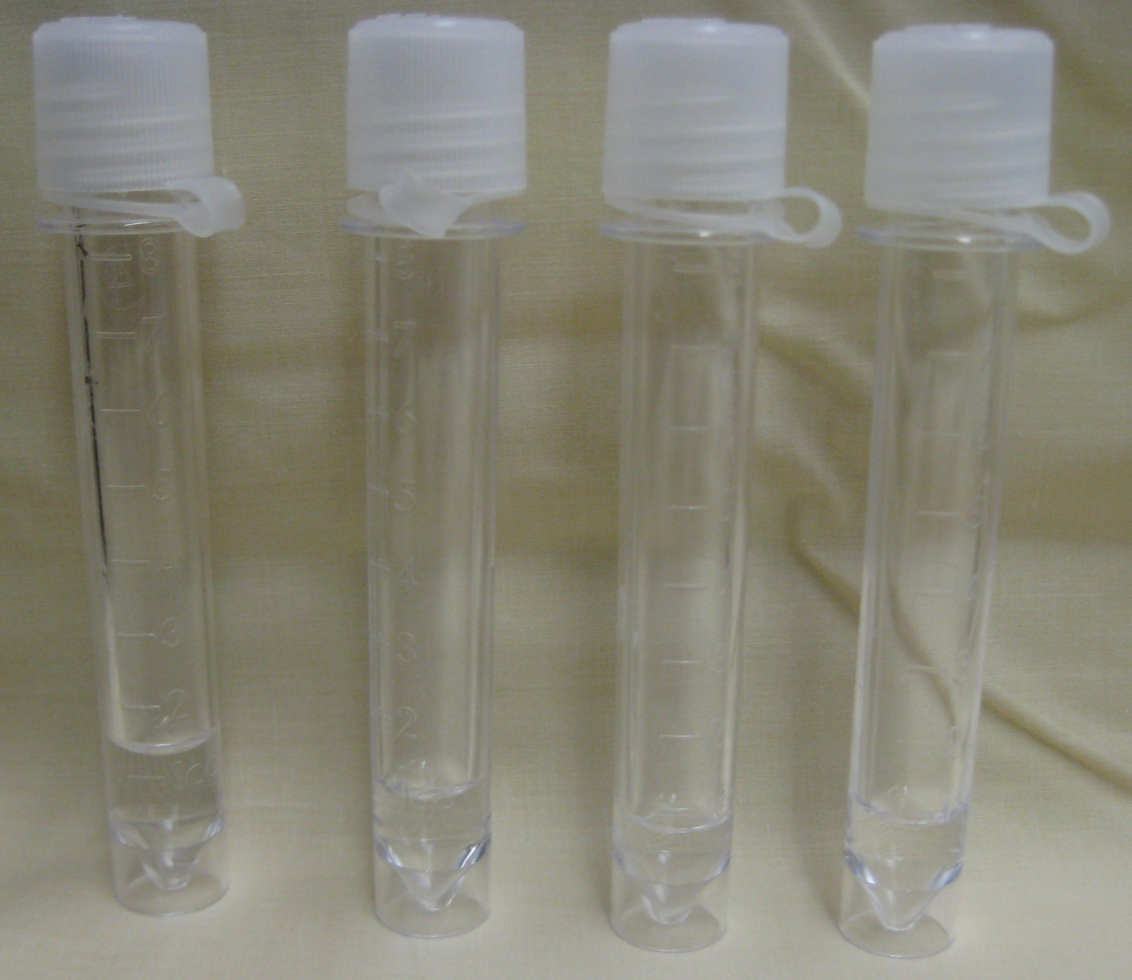 4 vials of human cerebral spinal fluid of normal appearance, collected via lumbar puncture from the L3/L4 disk space.